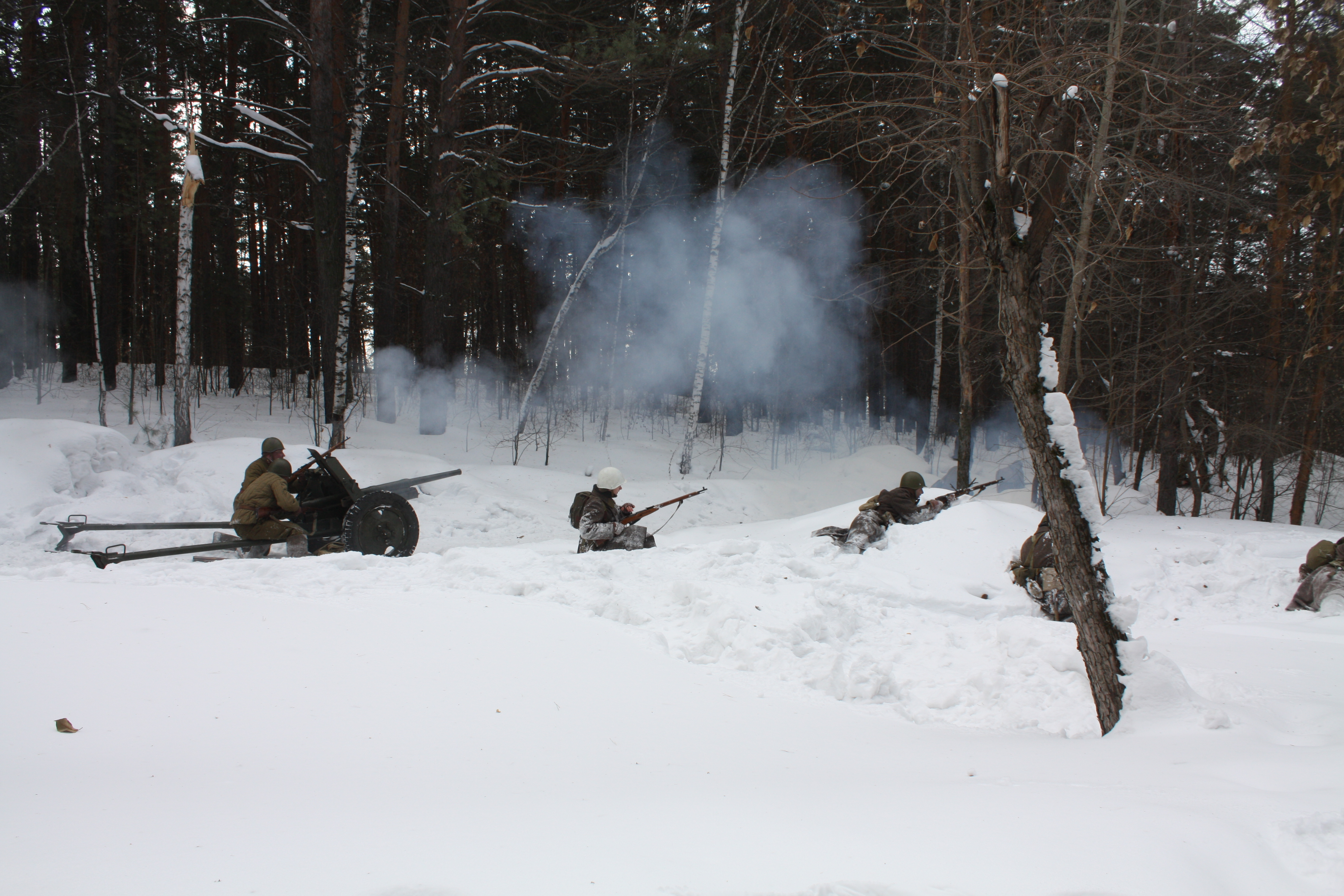 Historical reconstruction of the events of the Great Patriotic War in the Zaeltsovsky Park of Novosibirsk, February 23, 2017.